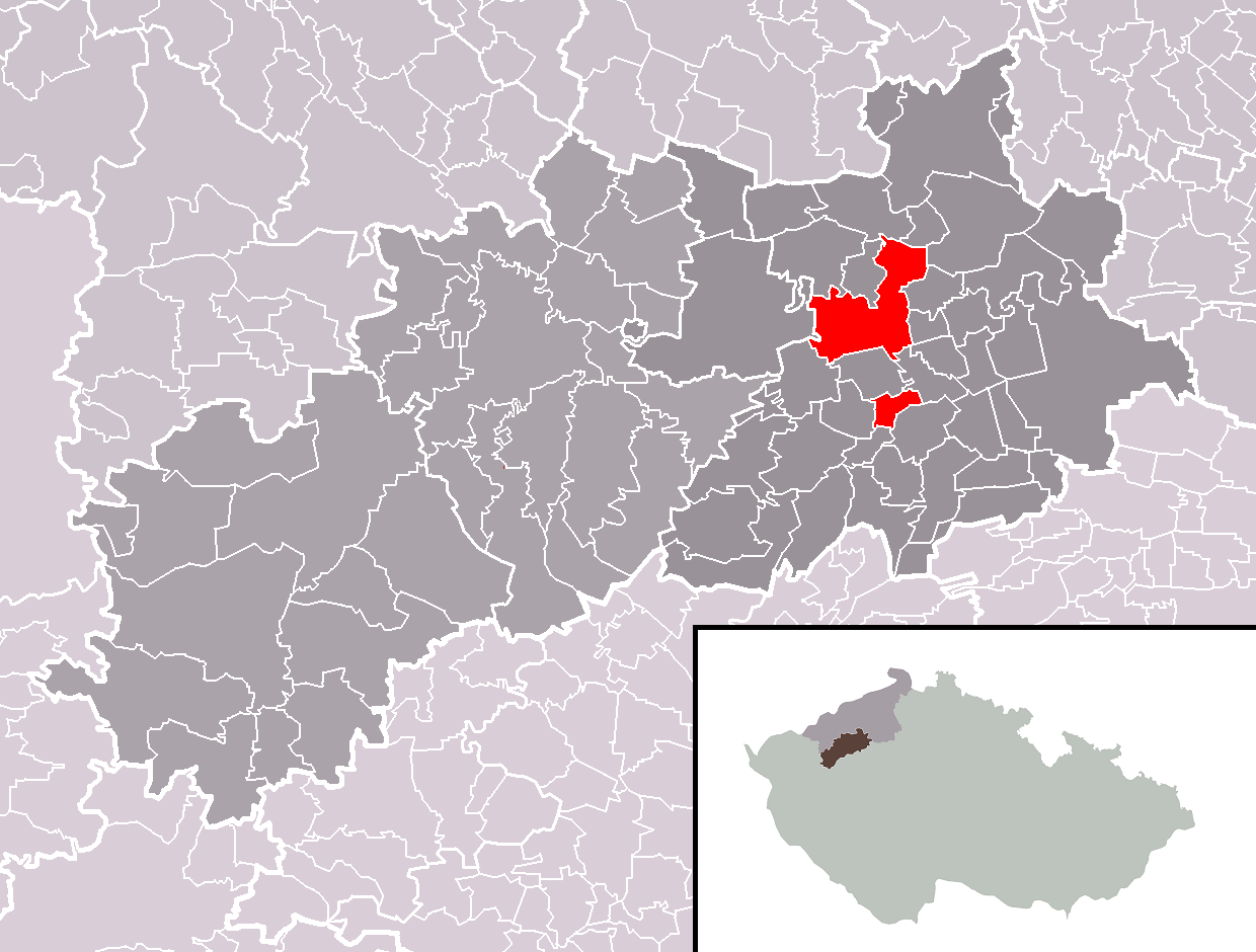 Location of Louny town within Louny District and administrative area of Louny as a Municipality with Extended Competence. Cadastral area of Brloh is separated from rest of the town by municipalities of Cítoliby and Chlumčany.